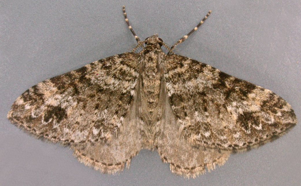 Mesotype didymata, Twin-spot Carpet, Berwyns, North Wales, July 2005